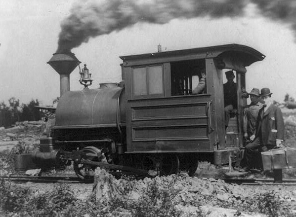 Locomotive on the Mesabi Range in northeast Minnesota, 1903